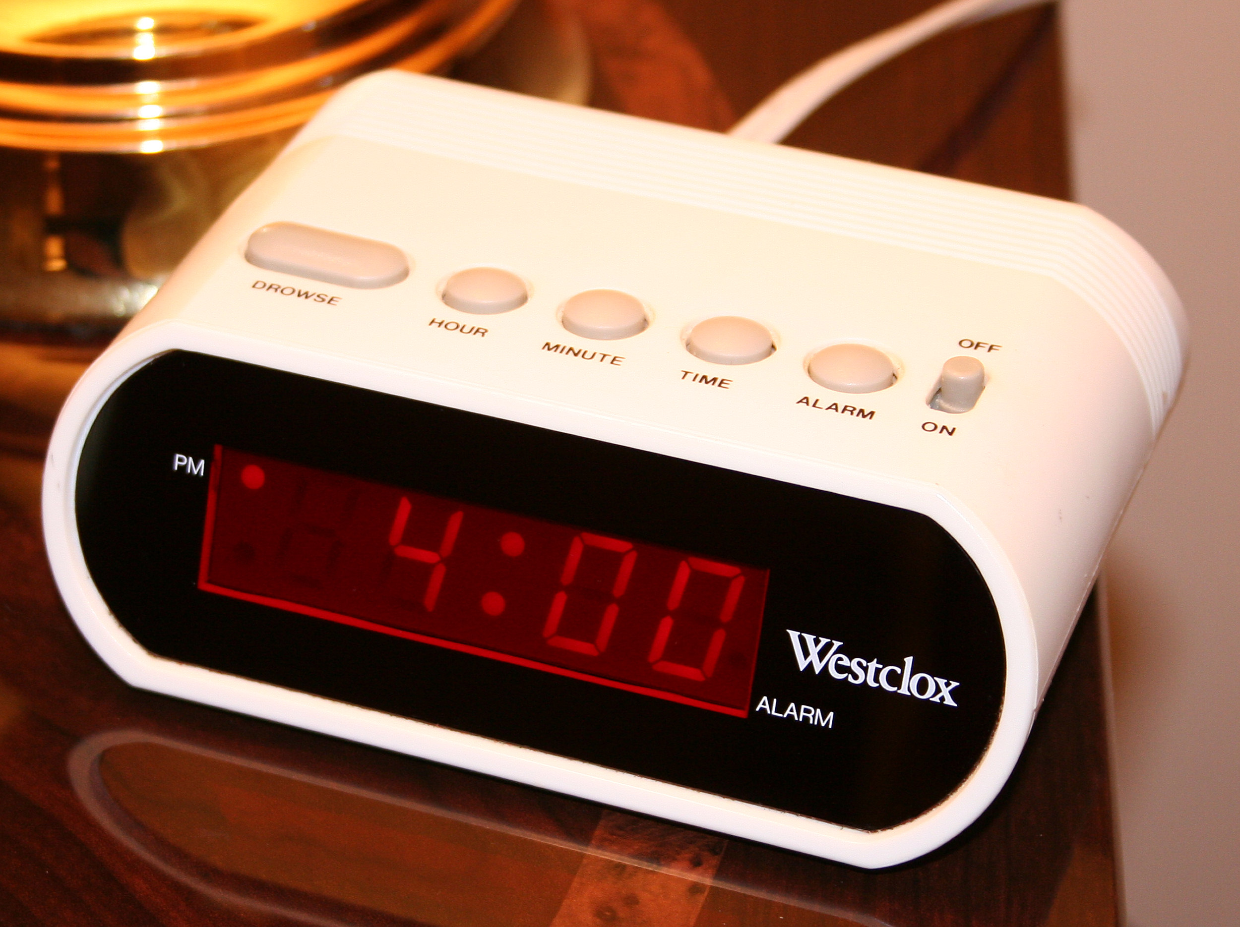 Digital alarm clock of a basic design without a radio. Photo shot by Derek Jensen (Tysto), 2005-September-30